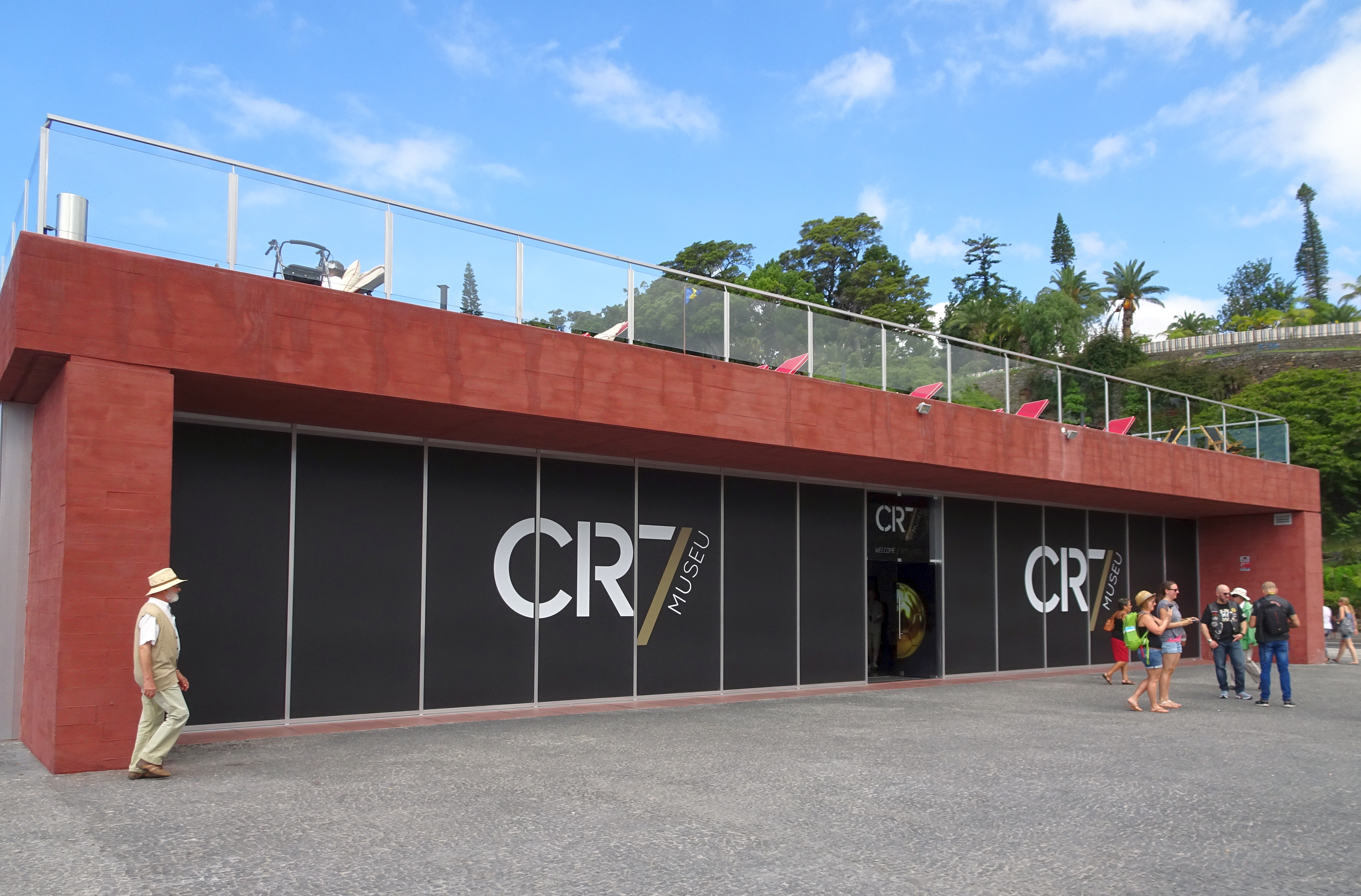 Museu CR7 in Funchal, Madeira, total view